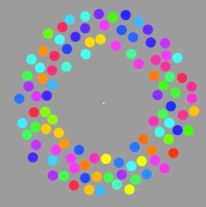 A screenshot of a video illusion called silencing.